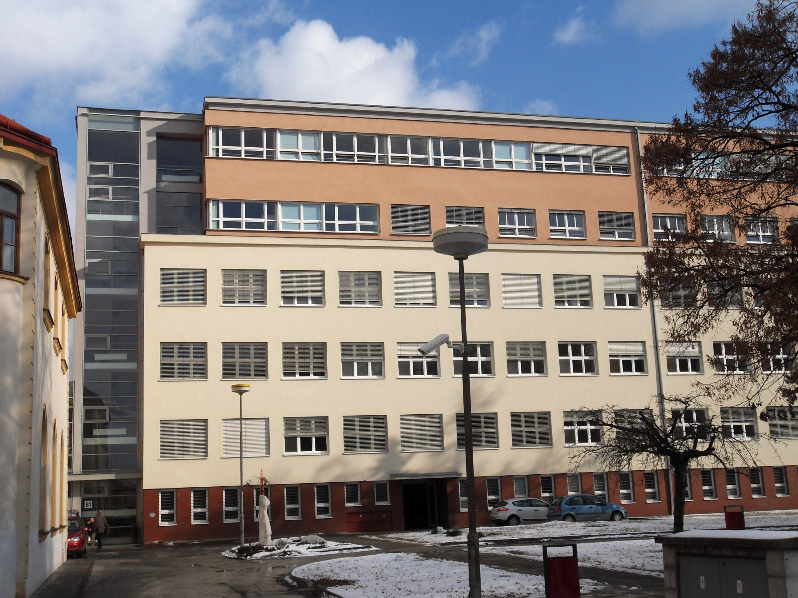 Military hospital Brno, Brno, Czech Republic